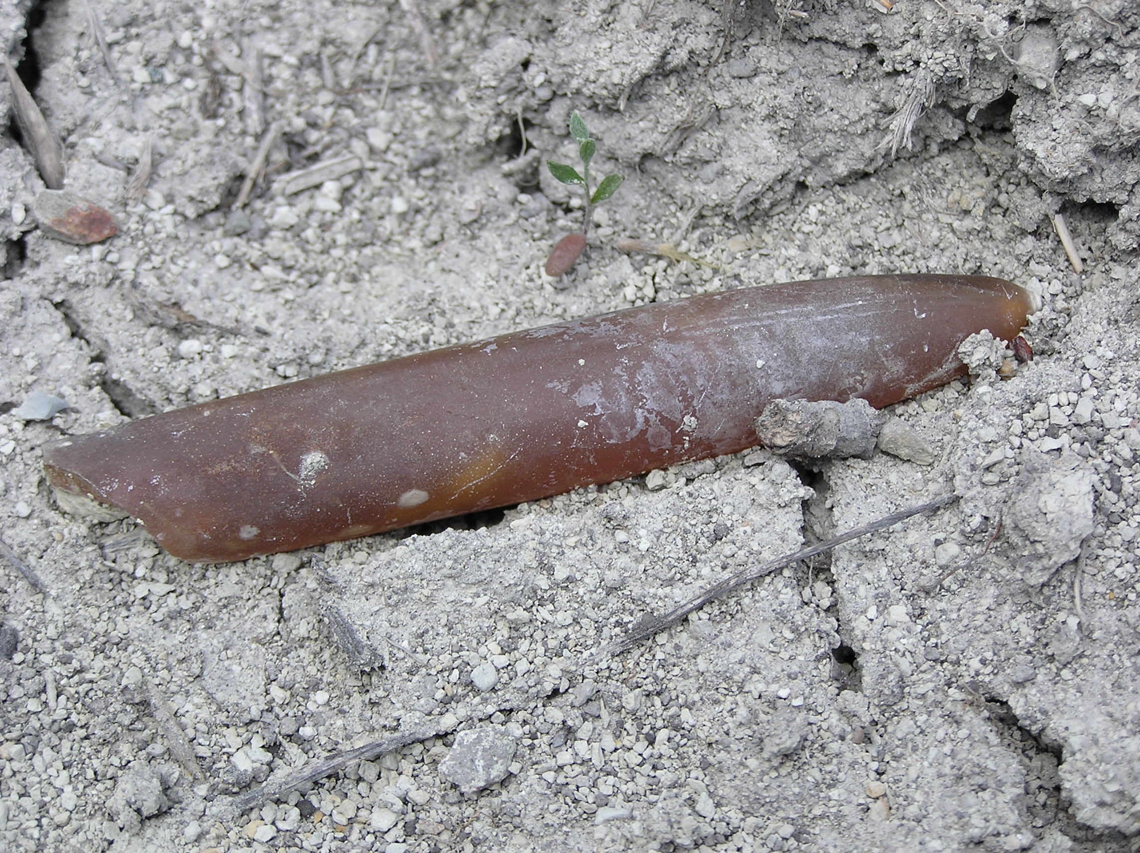 Fossilized rostrum of a belemnit from the genus Hibolites (vicinity of Saratov city, Russia; Late Cretaceous).